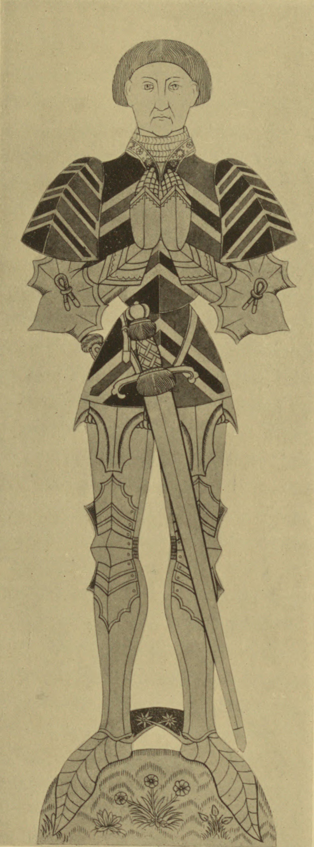 Brass of Sir John Say in Broxbourne Church, Hertshire, engraved by John Green Waller (b. c. 1813)